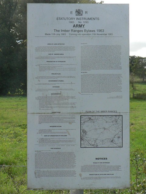 Imber: what you can and can’t do If you get caught disobeying any of these few simple rules, you can be taken to court and fined a sum not exceeding five pounds, according to the notice.